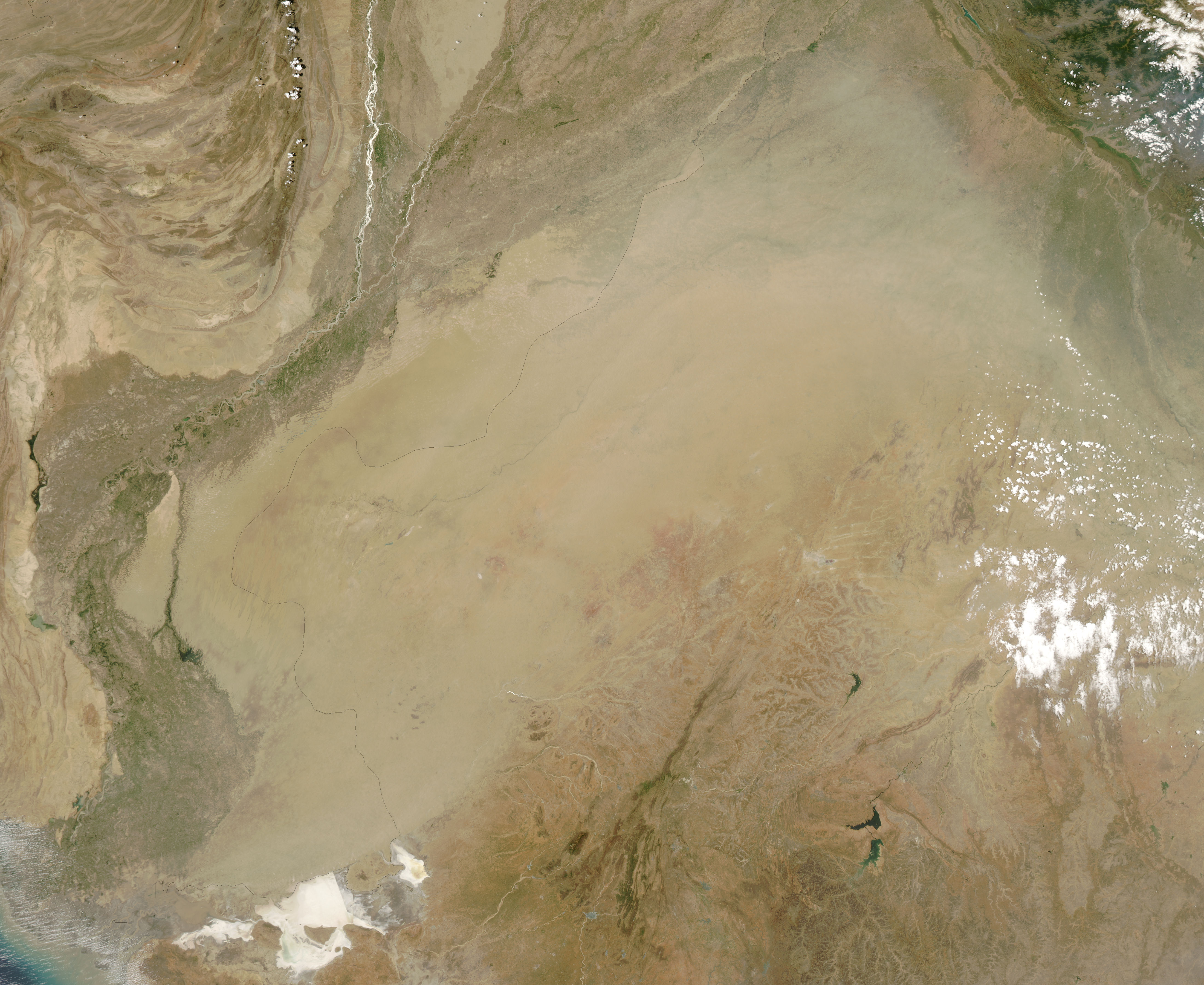 Dust storm in India and Pakistan